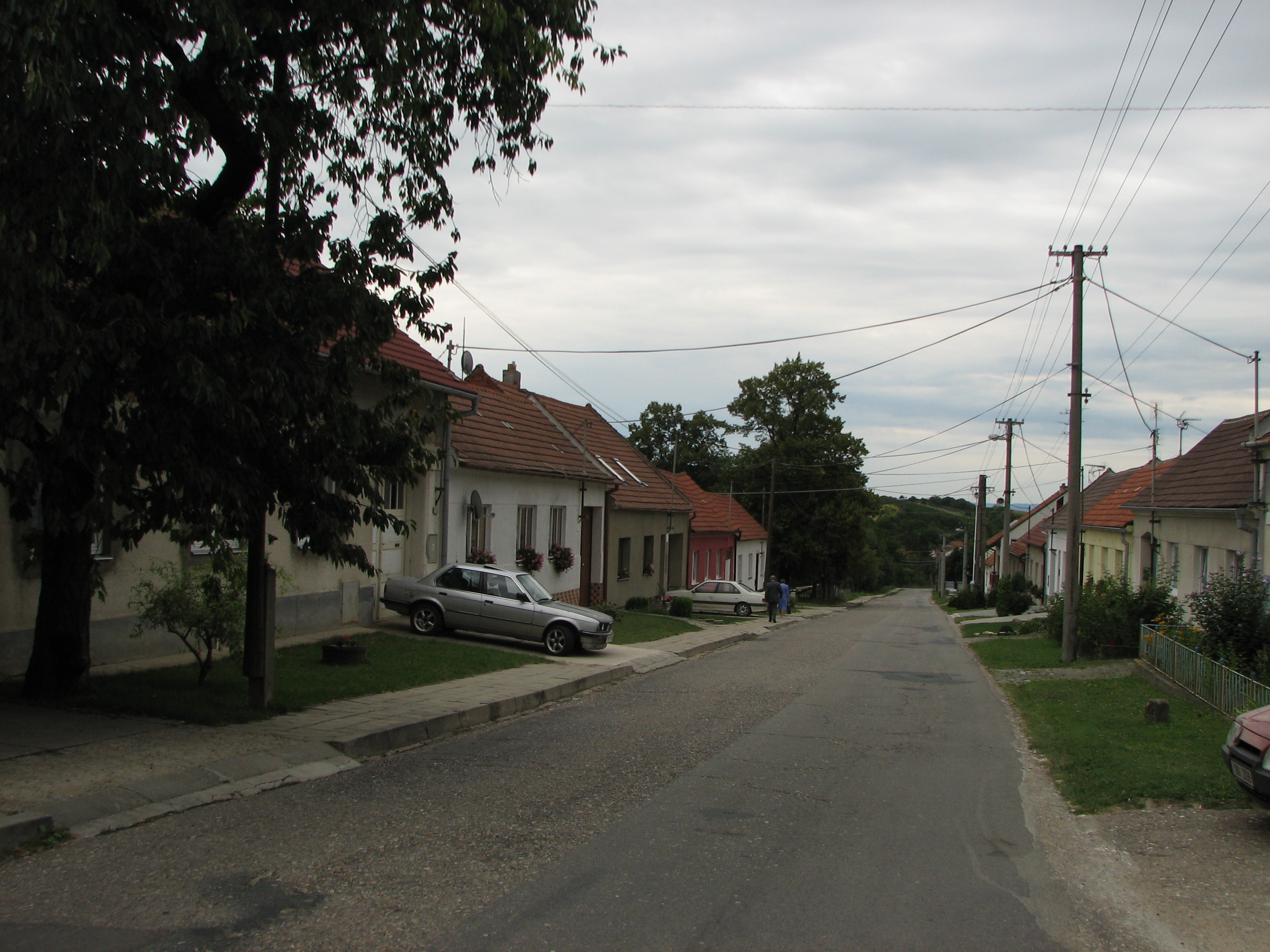 Sobůlky - main street